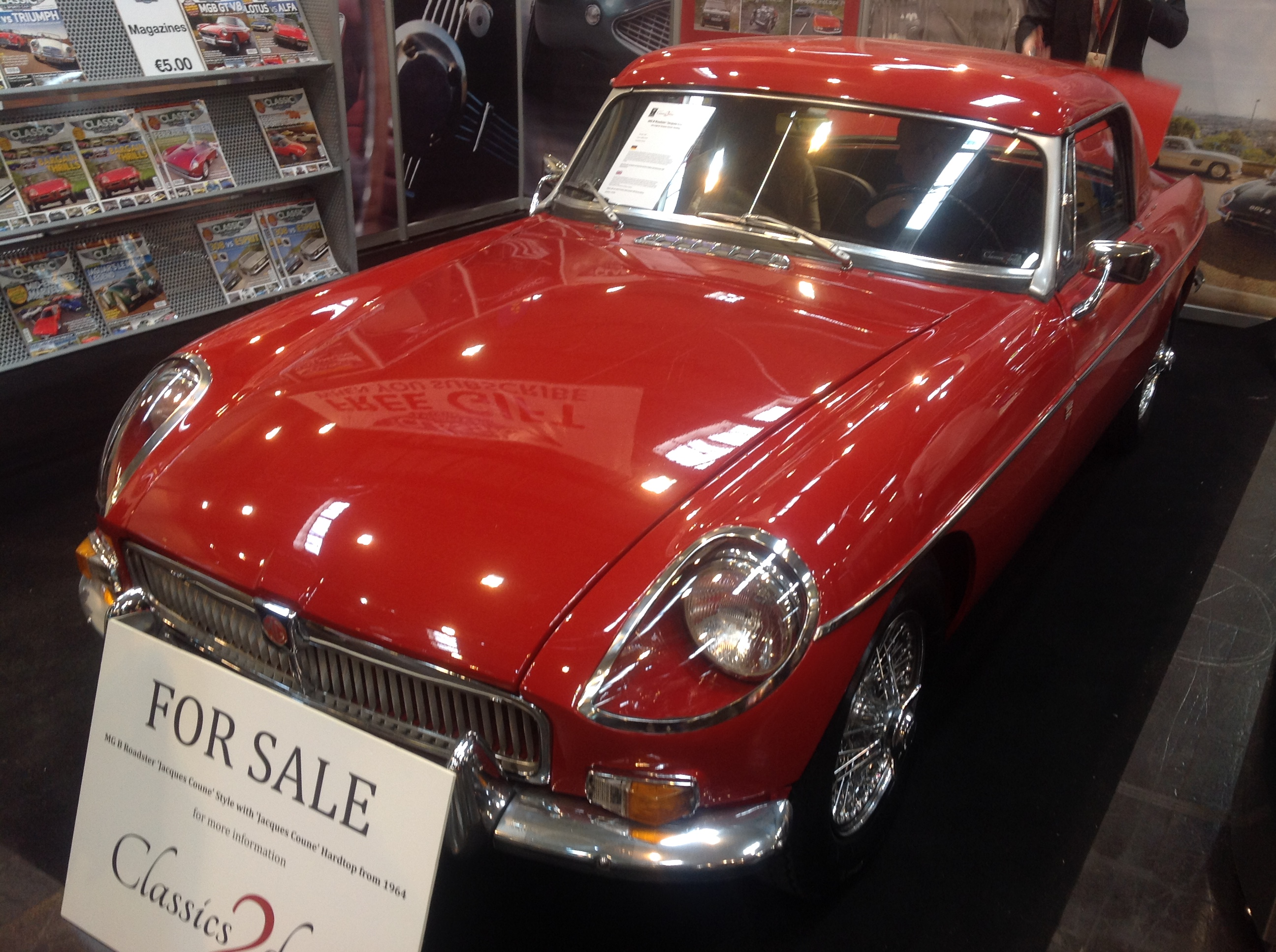 Jacques Coune was based in Belgium and modified the MGB (note the faired-in lights). He also produced his own GT coupe which was very different to the MGB GT (search for my photos on stream) .